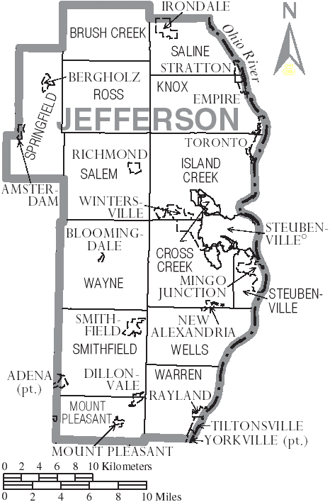 Map of Jefferson County, Ohio, United States with township and municipal boundaries